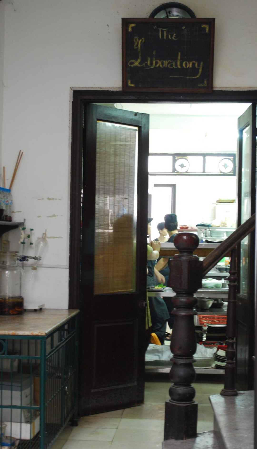 A charming French restaurant in Hanoi, Vietnam that harks back to the French Colonial days, even if the food is trying a little too hard.